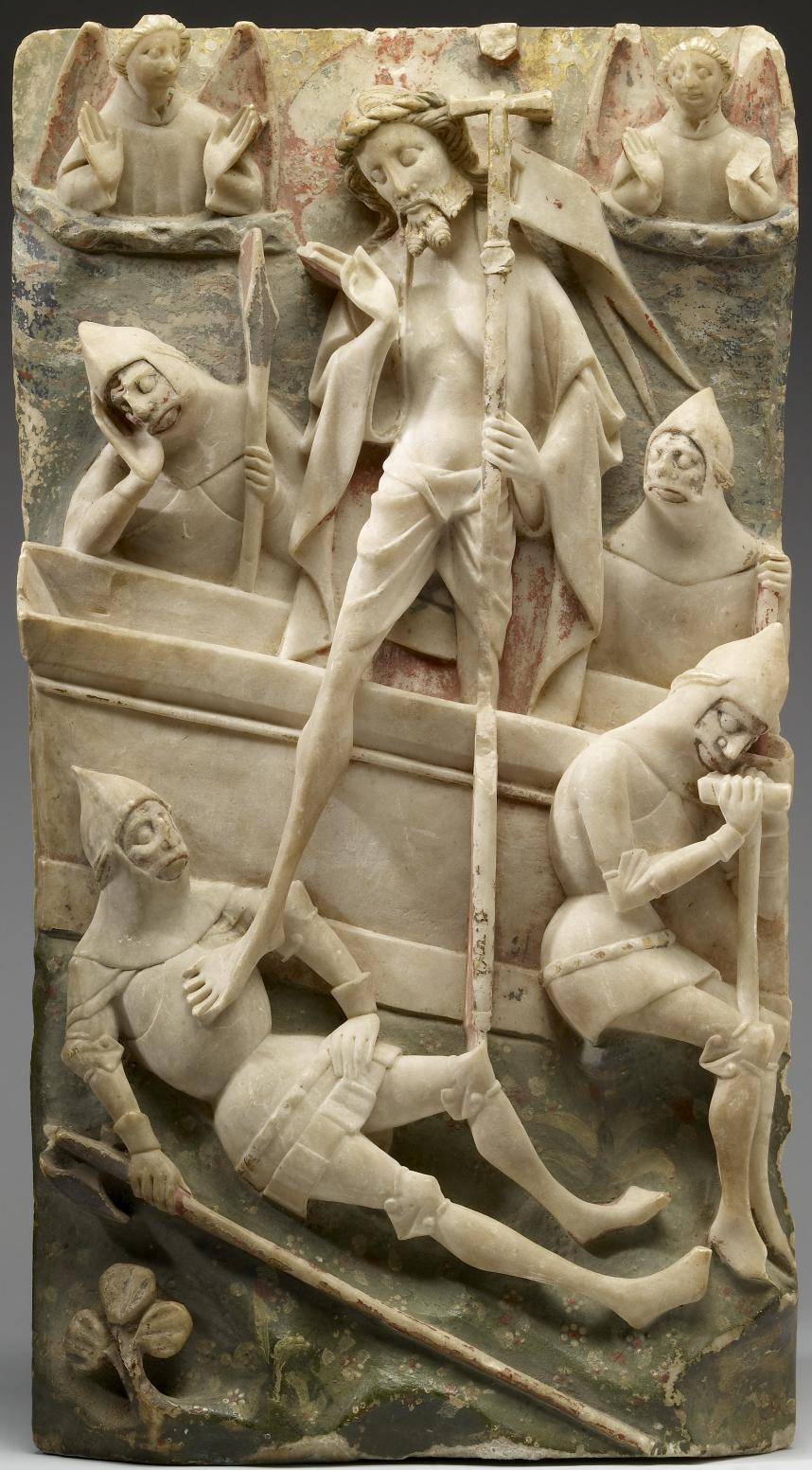 In the fourteenth and fifteenth centuries, alabaster was a popular sculptural material in England, where it was in plentiful supply. The soft texture of the stone makes it easy to carve, and the translucent qualities of the surface offer an almost glowing beauty well suited to church decoration. Panels of carved and painted alabaster were pieced together to create large altar frontals, often showing scenes of the Passion of Christ or the Life of the Virgin. These altarpieces were made at workshops in Nottingham, in the region where the alabaster was quarried, and could be used in local churches or exported to continental Europe. This dramatic panel showing the moment of Christ's Resurrection exemplifies the detail and texture that could be achieved by sculptors working in alabaster. In this exquisitely refined carving, even very shallow relief can suggest a decided sense of depth by depicting overlapping forms. The soldiers in front are in front of the open tomb, which is in front of other sleeping soldiers. The figure of the risen Christ is carved with such subtlety that even the fabric of his mantle appears soft. As Christ steps from the tomb, his foot rests so gently on the sleeping soldier that he doesn't even wake.